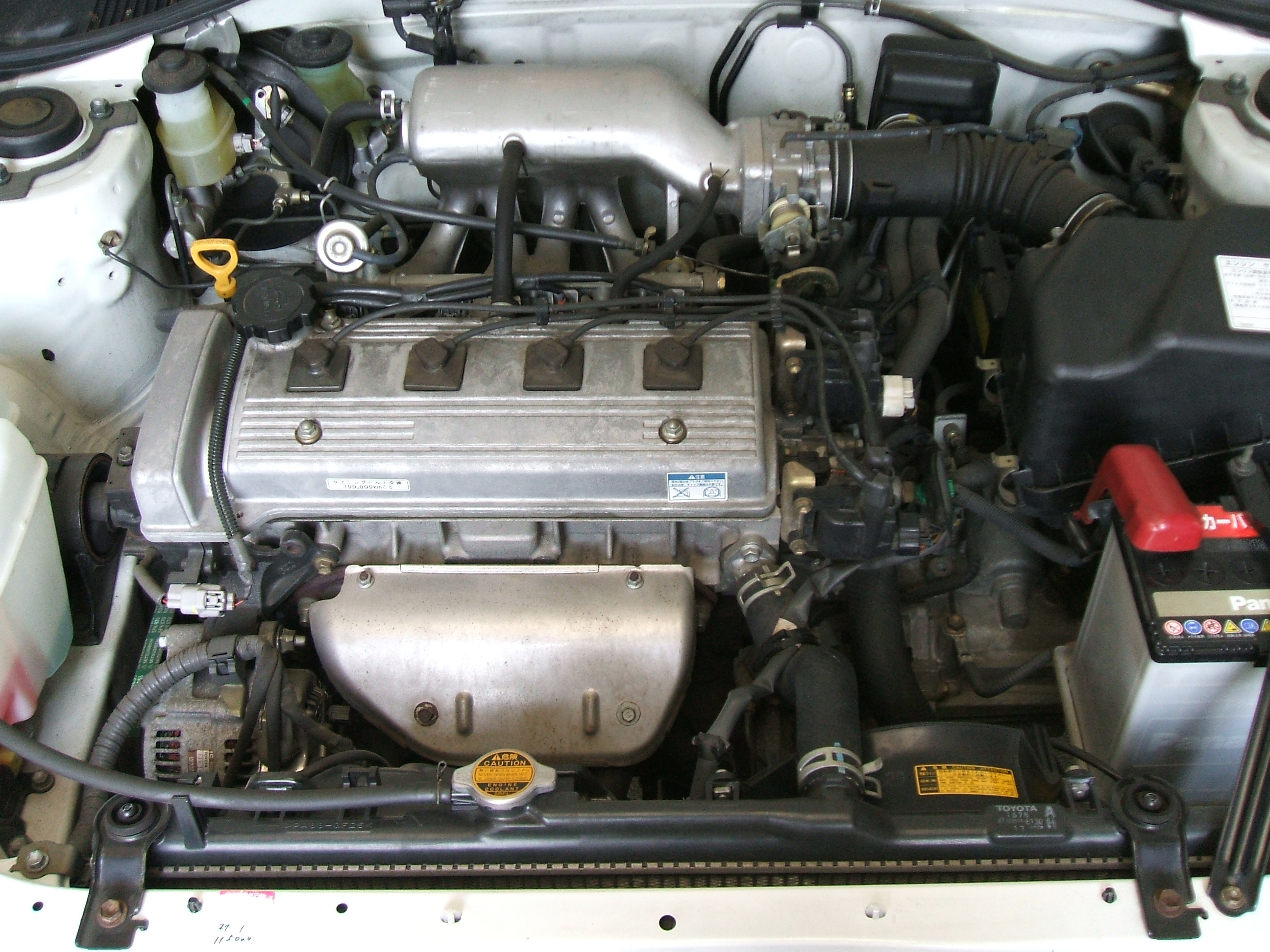 Toyota 7A-FE engine.